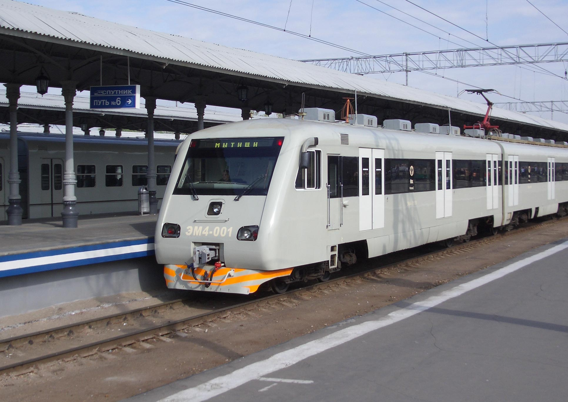 EM4 "Sputnik" arrives Moscow.